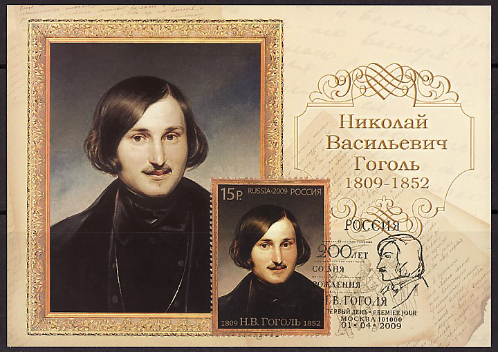 Russia 2009. Maximum card to the 200th anniversary of the birth of Nikolai Gogol. On postal card and stamp: Portrait of Nikolai Gogol by F. Moller, 1840s. The State Tretyakov Gallery. Stamp of Russia №1306. First day of issue postmark 04/01/2009 Moscow, Post Office 101000. On the back - special cancellation 04/01/2009 Moscow, Post Office 101000.